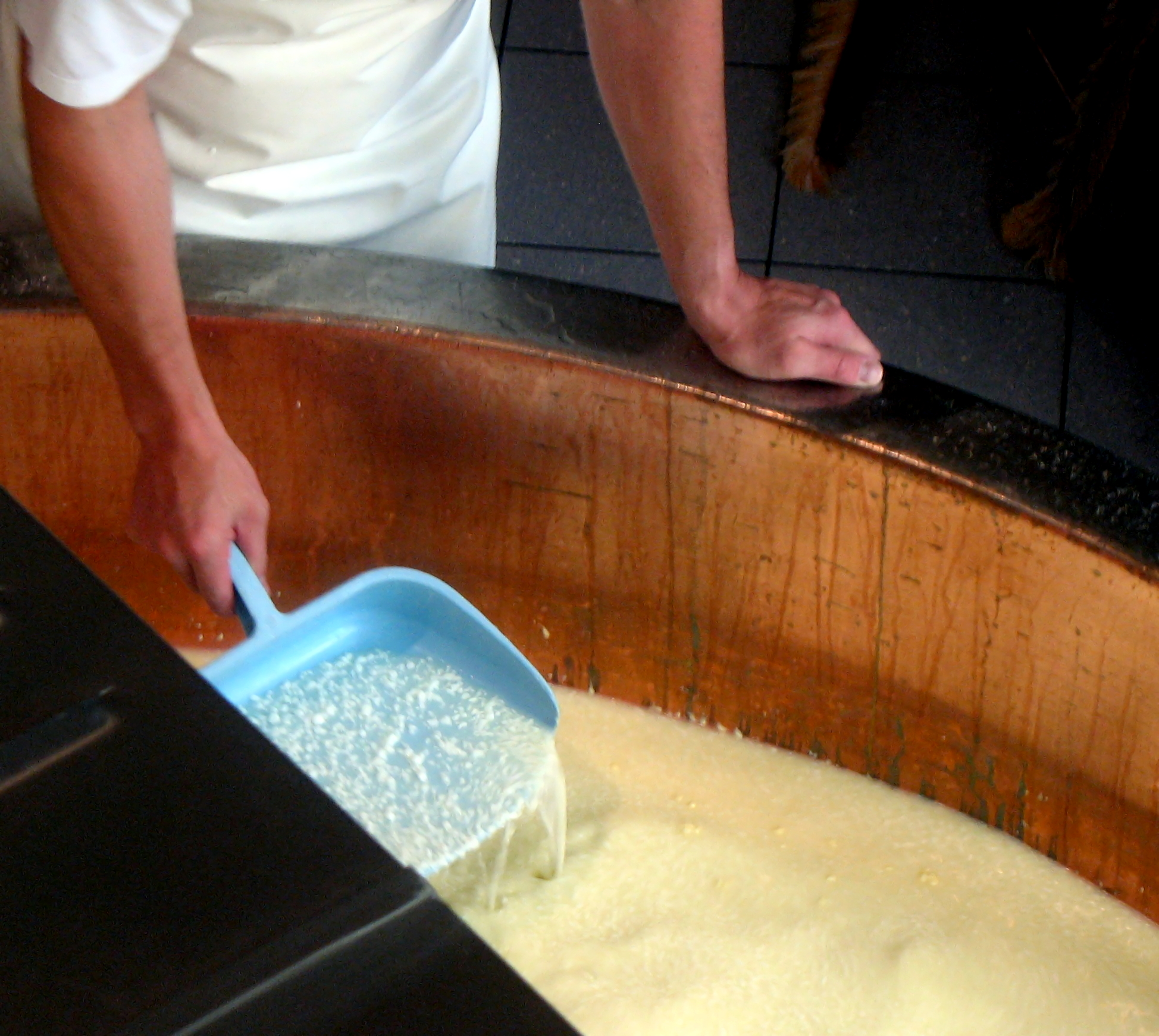 Production of Gruyère cheese at the cheesemaking factorie of Gruyères , Switzerland, Canton of Fribourg. This image was improved or created by the Wikigraphists of the Graphic Lab (fr). You can propose images to clean up, improve, create or translate as well.